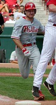 Baseball, First baseman, Sean Casey, 2004, by Rick Dikeman.